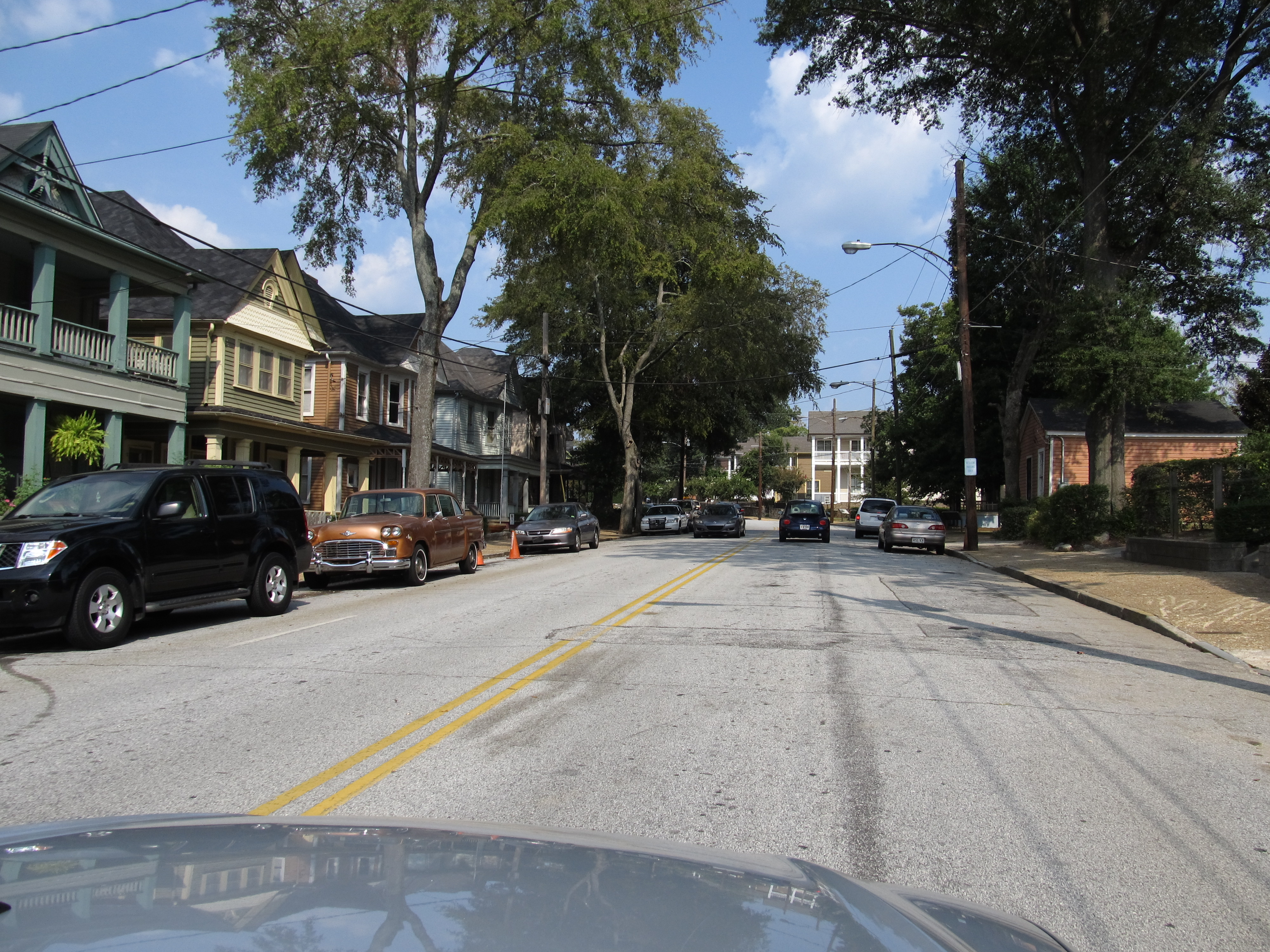 The Old Fourth Ward, often abbreviated O4W, is a neighborhood just east of Downtown Atlanta, Georgia, United States. The neighborhood is best known as the location of the Martin Luther King, Jr. historic site. However, the Old Fourth Ward has also garnered national attention as "a cradle of culinary and artistic innovation and as a symbol of gentrification."